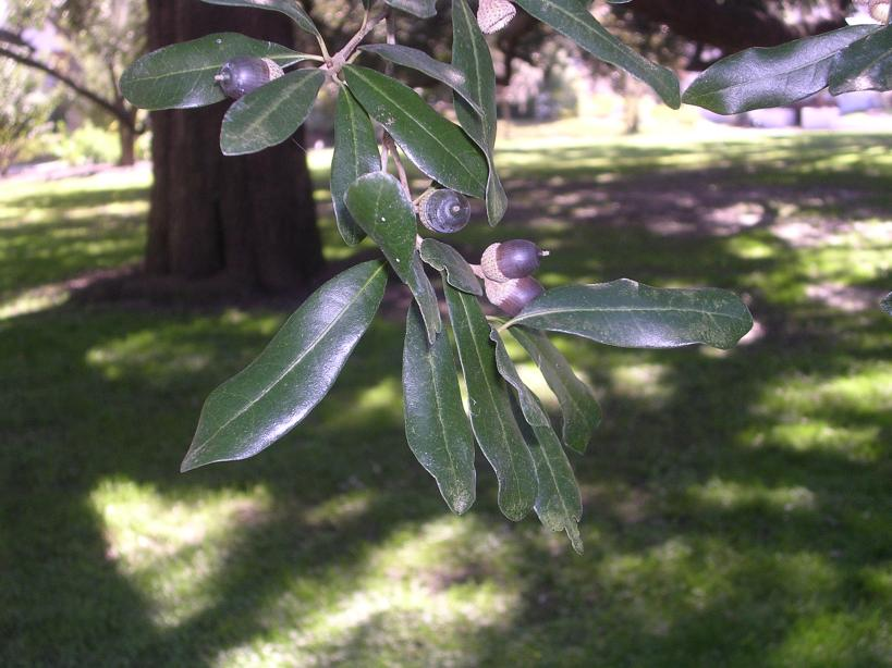 Leaves and acorns believed to be from southern live oak (Quercus virginiana). This is the same tree shown in Image:Spanish-moss-tree.jpg.